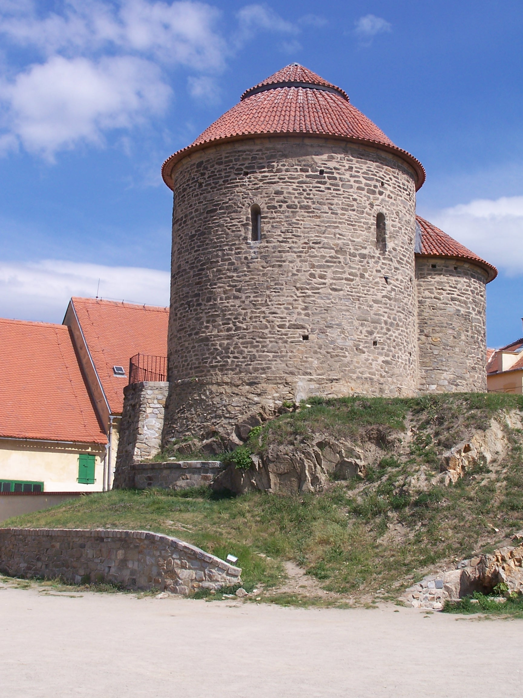 Rotonda Our Lady and St. Catherine, Znojmo, National cultural monument